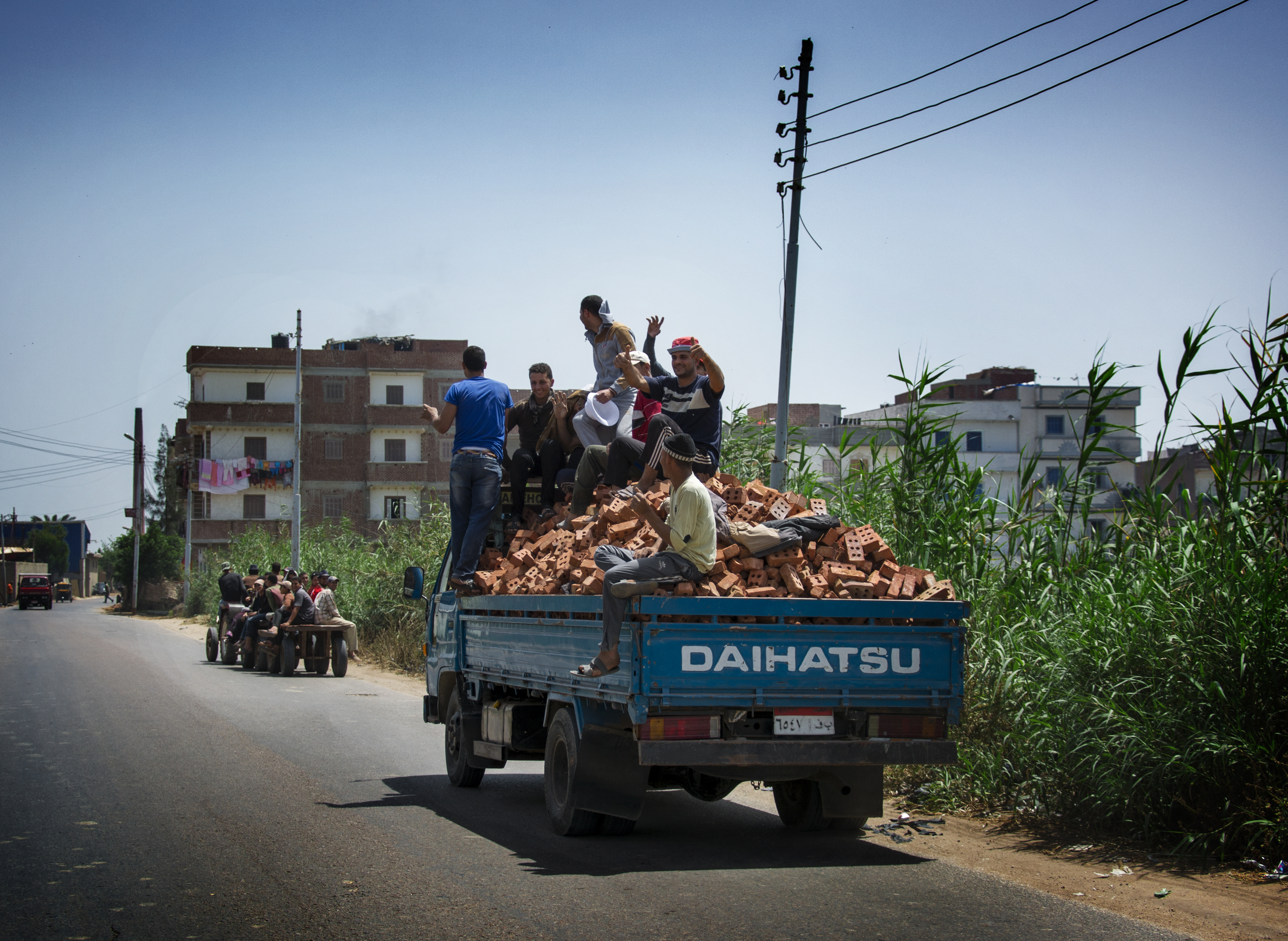 This is an image with the theme "Africa on the Move or Transport" from: Egypt